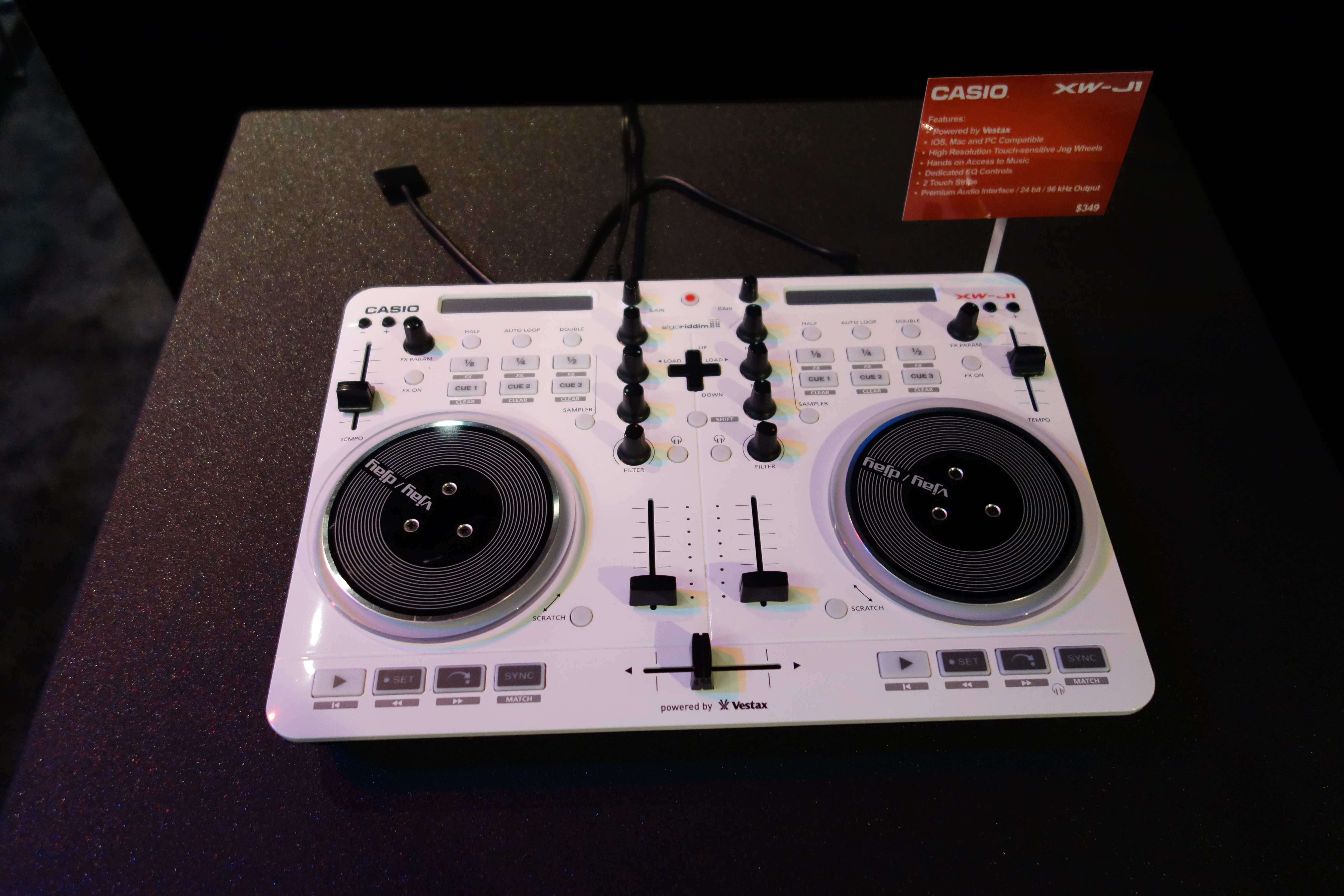 DSC00498 References XW-J1 DJ Controller - Special Features. Products. Casio America, Inc. ."​Powered by Vestax - The XW-J1 delivers all the legendary quality of Vestax professional hardware. The mixer controls are built using high quality faders and rotary knobs. "